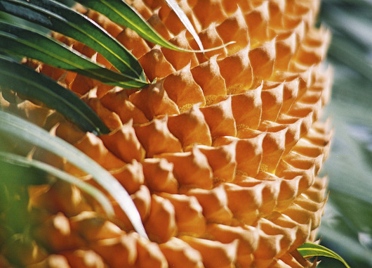 Picture made in Dias D'Ávilas (Bahia, Brazil). It is a male cone of a Cycas circinalis (Cycad).